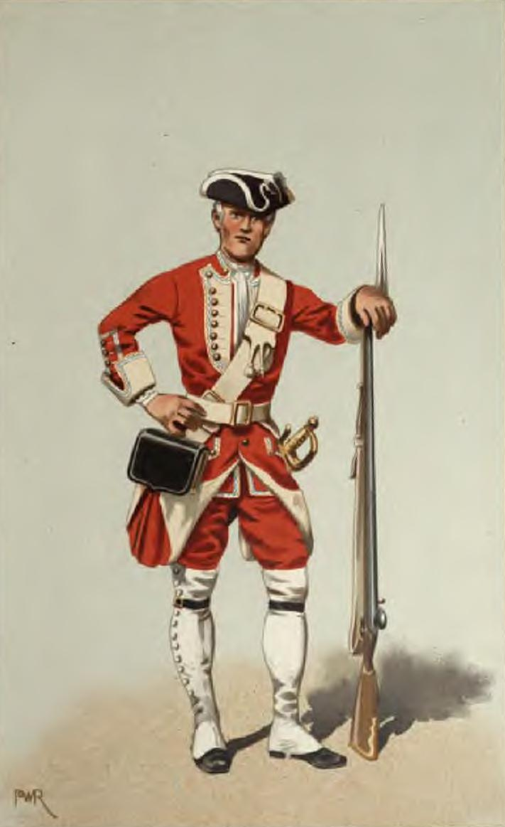 Private man, 40th Regiment of Foot, 1742.